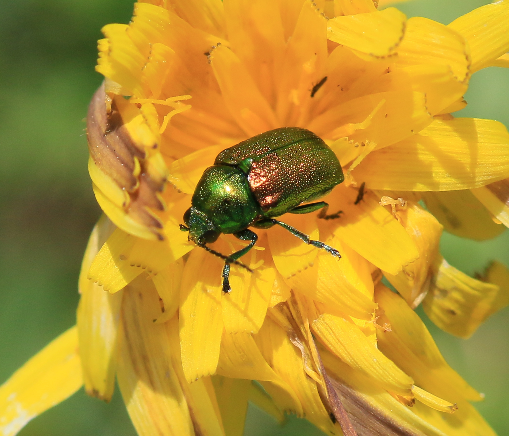 Refugio de Gabardito, Aragon, Spain Thanks to Boris (thaptor) for the correct id